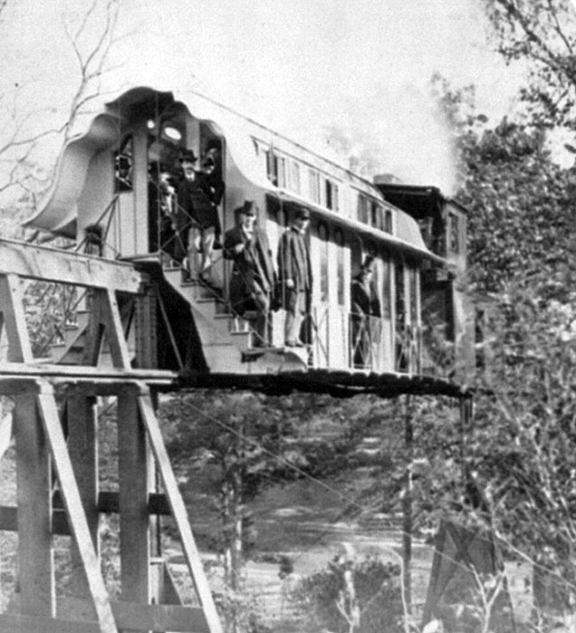 Monorail train operating for the International Exhibition on the Centennial Grounds, Philadelphia, Pennsylvania, USA